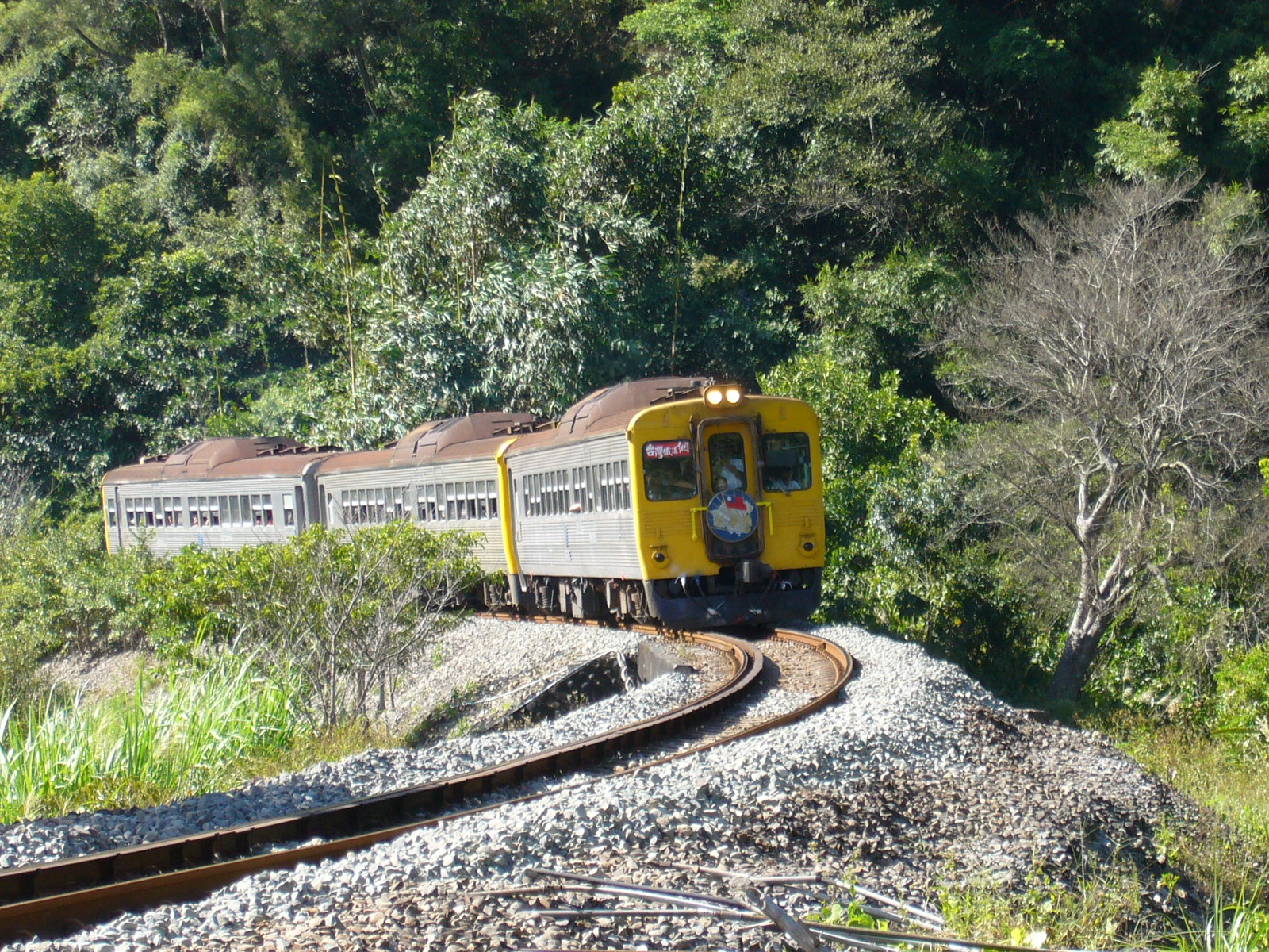 TRA DR2705 in Neiwan Line